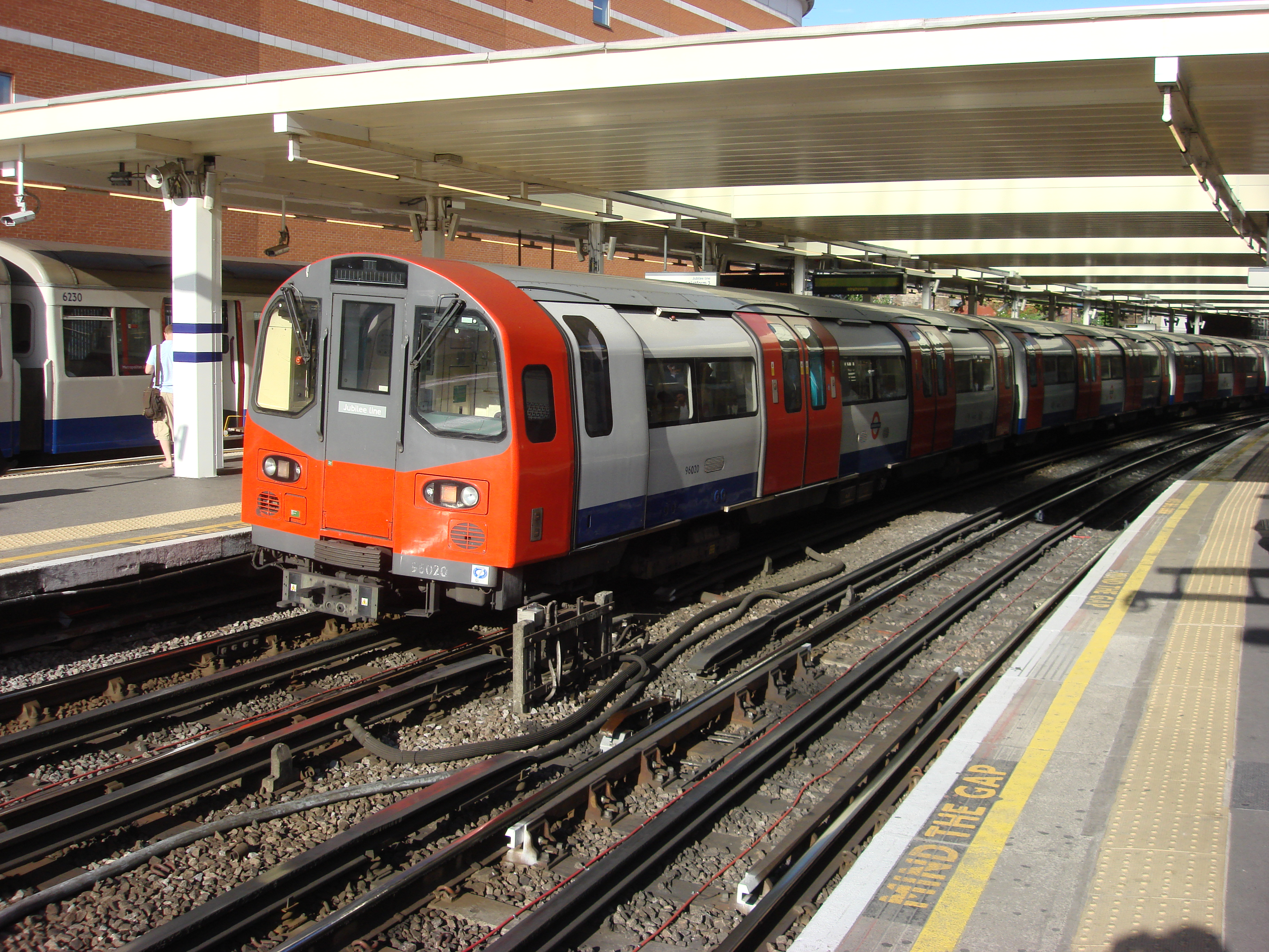 London Underground 1996 Stock at Finchley Road tube station